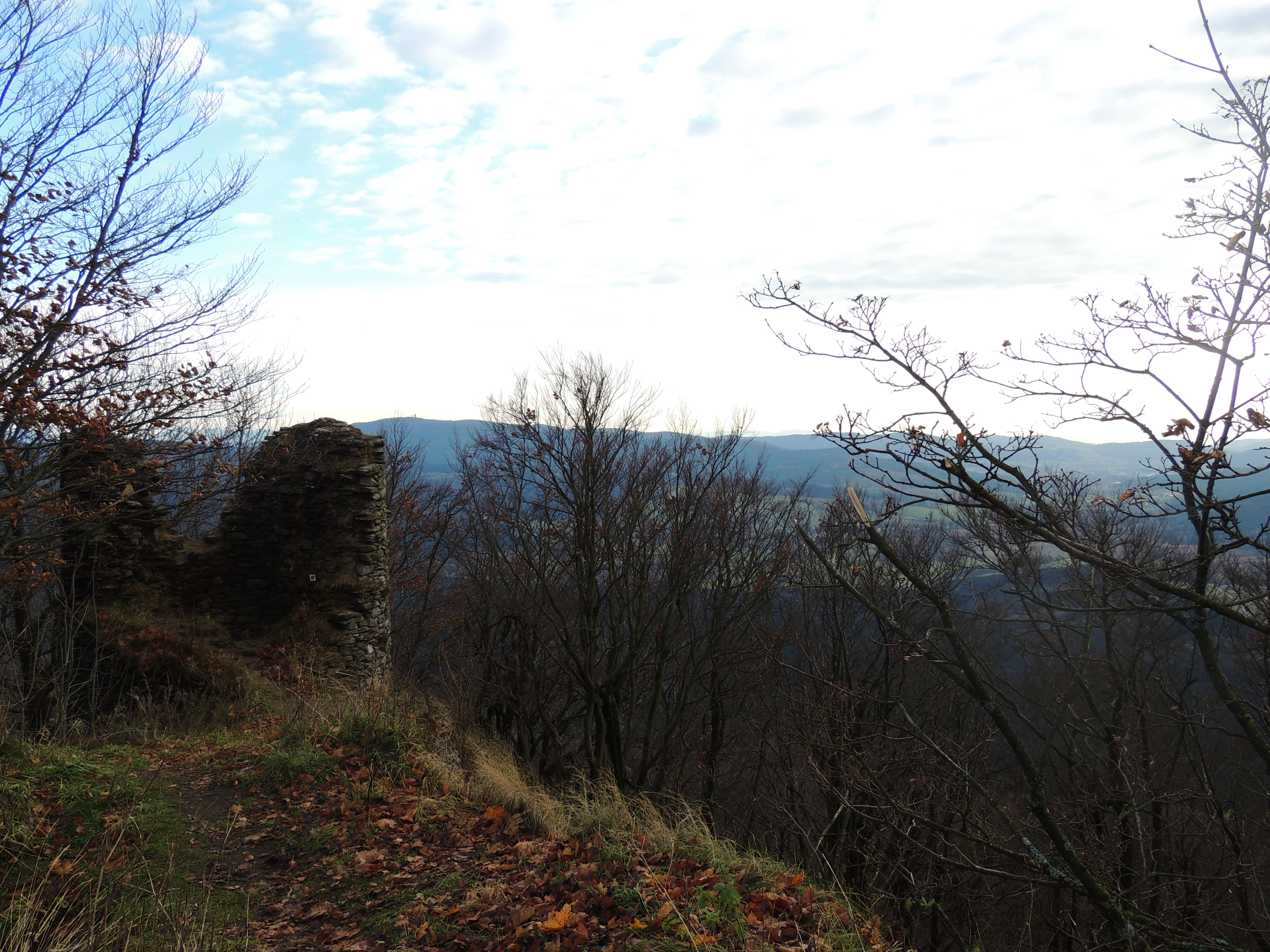 Nature reserve Starý Hirštejn in Domažlice District, Czech Republic